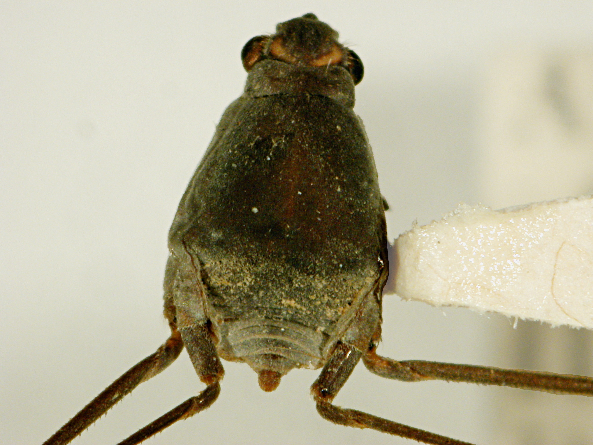 Taken in the Zoologische Staatssammlung München Halobates keyanus; Eschscholtz, 1822; Meerwasserläufer